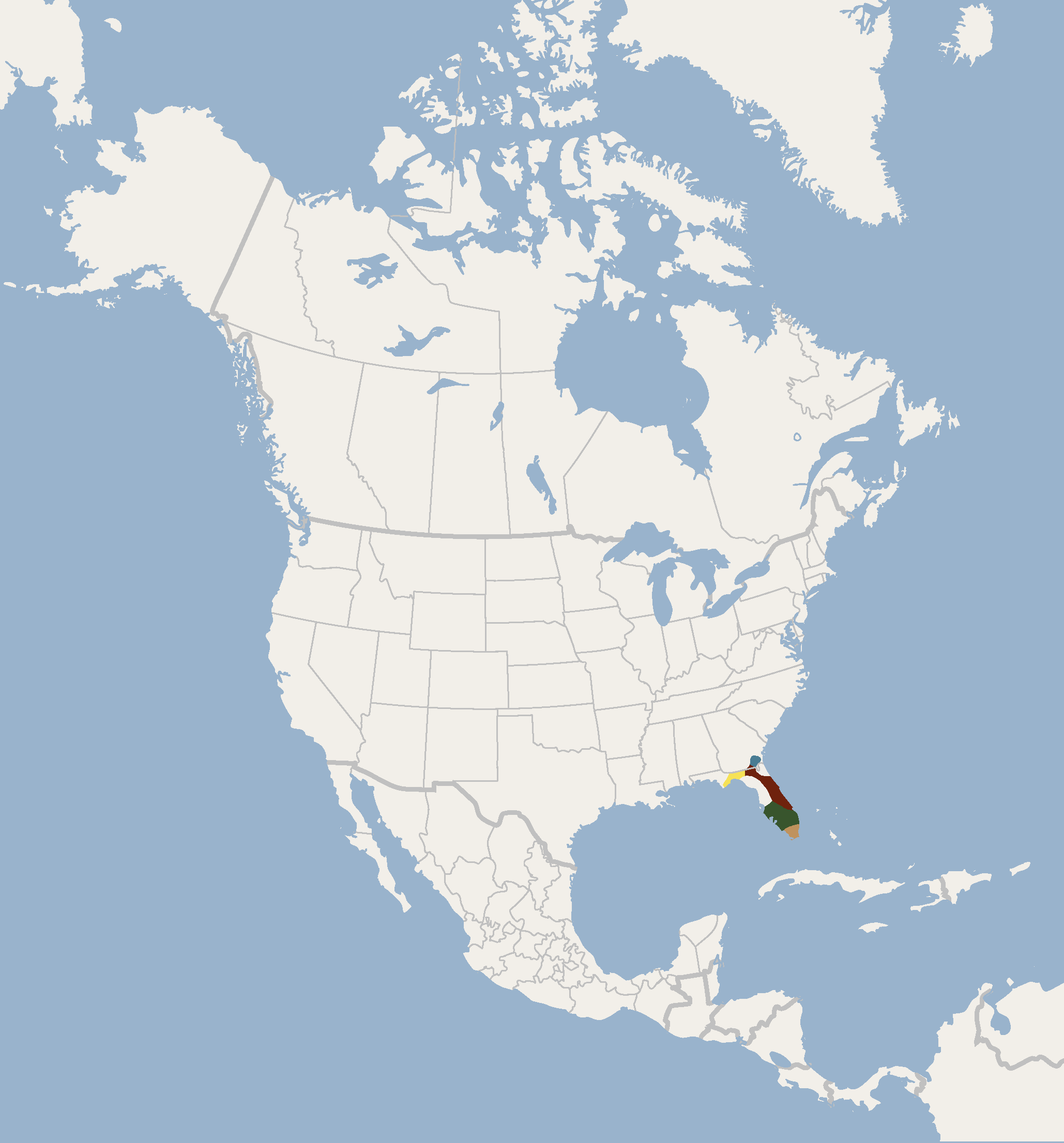 According to Hall, 1981. Subspecies range in different colours